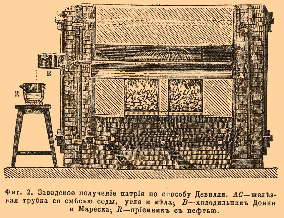 Illustration from Brockhaus and Efron Encyclopedic Dictionary (1890—1907)